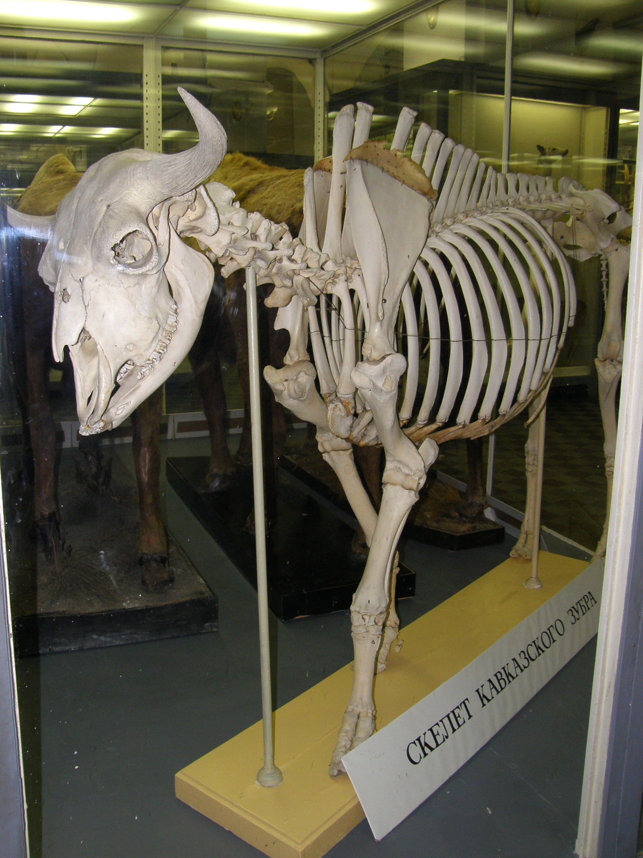 Skeleton of Bison bonasus caucasicus in Zoological Museum of the Zoological Institute of the Russian Academy of Sciences.